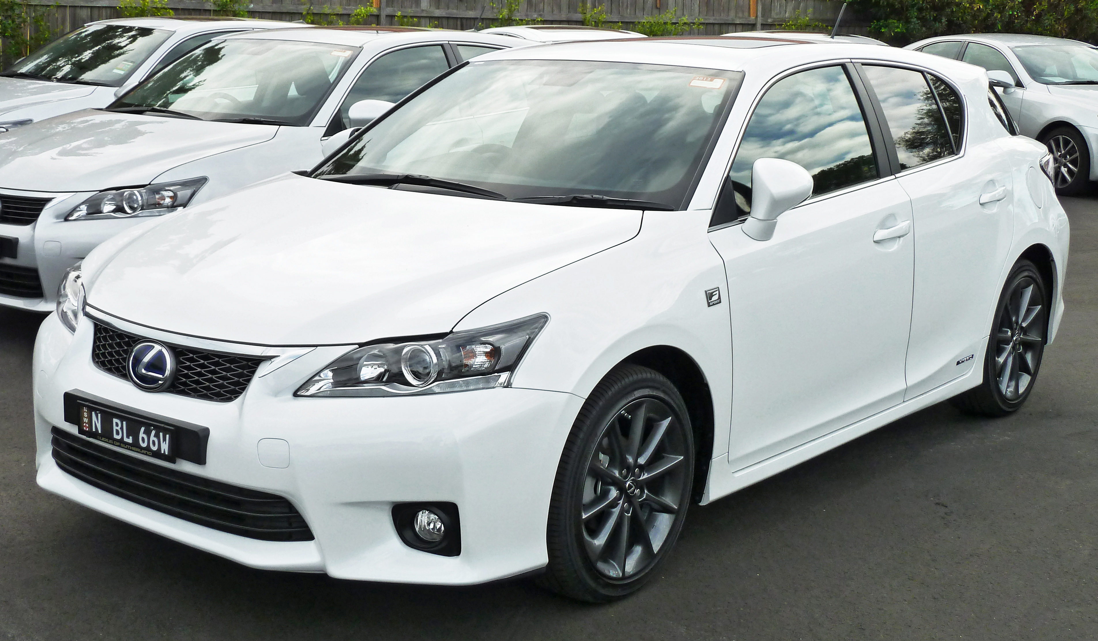 2011 Lexus CT 200h (ZWA10R) F Sport hatchback. Photographed at Lexus of Sutherland, Kirrawee, New South Wales, Australia.